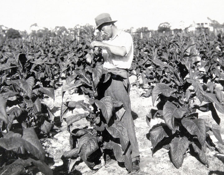 Tobacco plants, before topping.